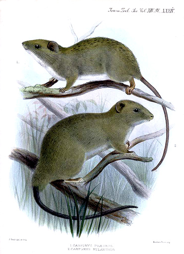 Carpomys phæurus and Carpomys melanurus